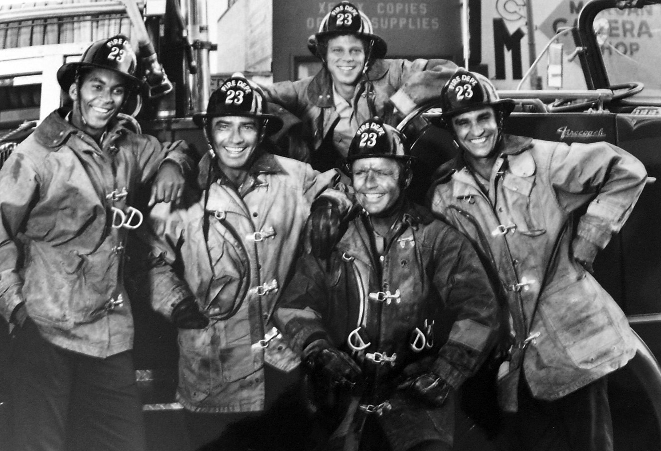 Cast of the short-lived ABC television program Firehouse. From left: Bill Overton (Cal Dakin), James Drury (Spike Ryerson), Brad David (Billy Dazell-in back), Richard Jaeckel (Hank Myers-in front), Michael DeLano (Sonny Caputo).